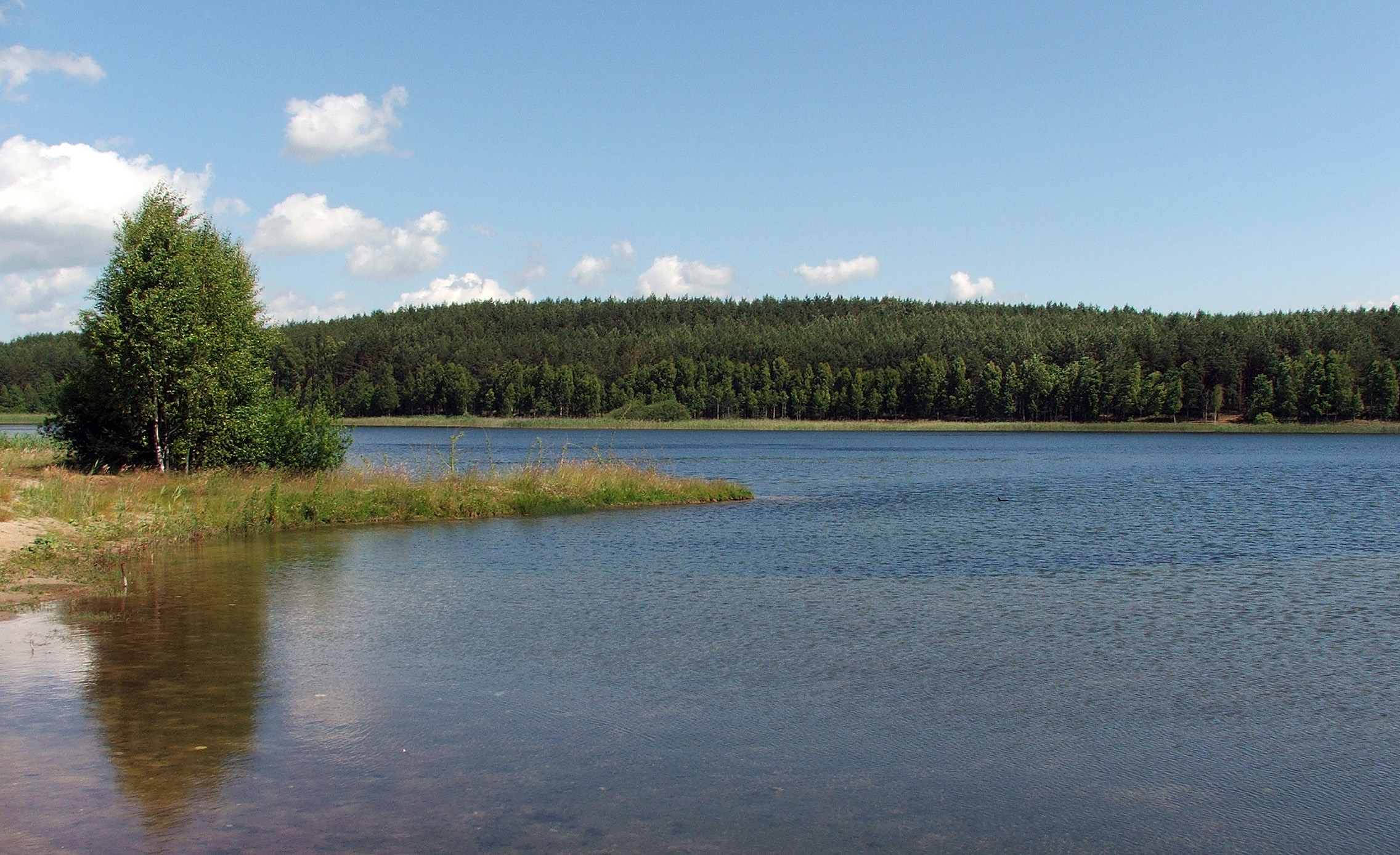 Dymno Lake